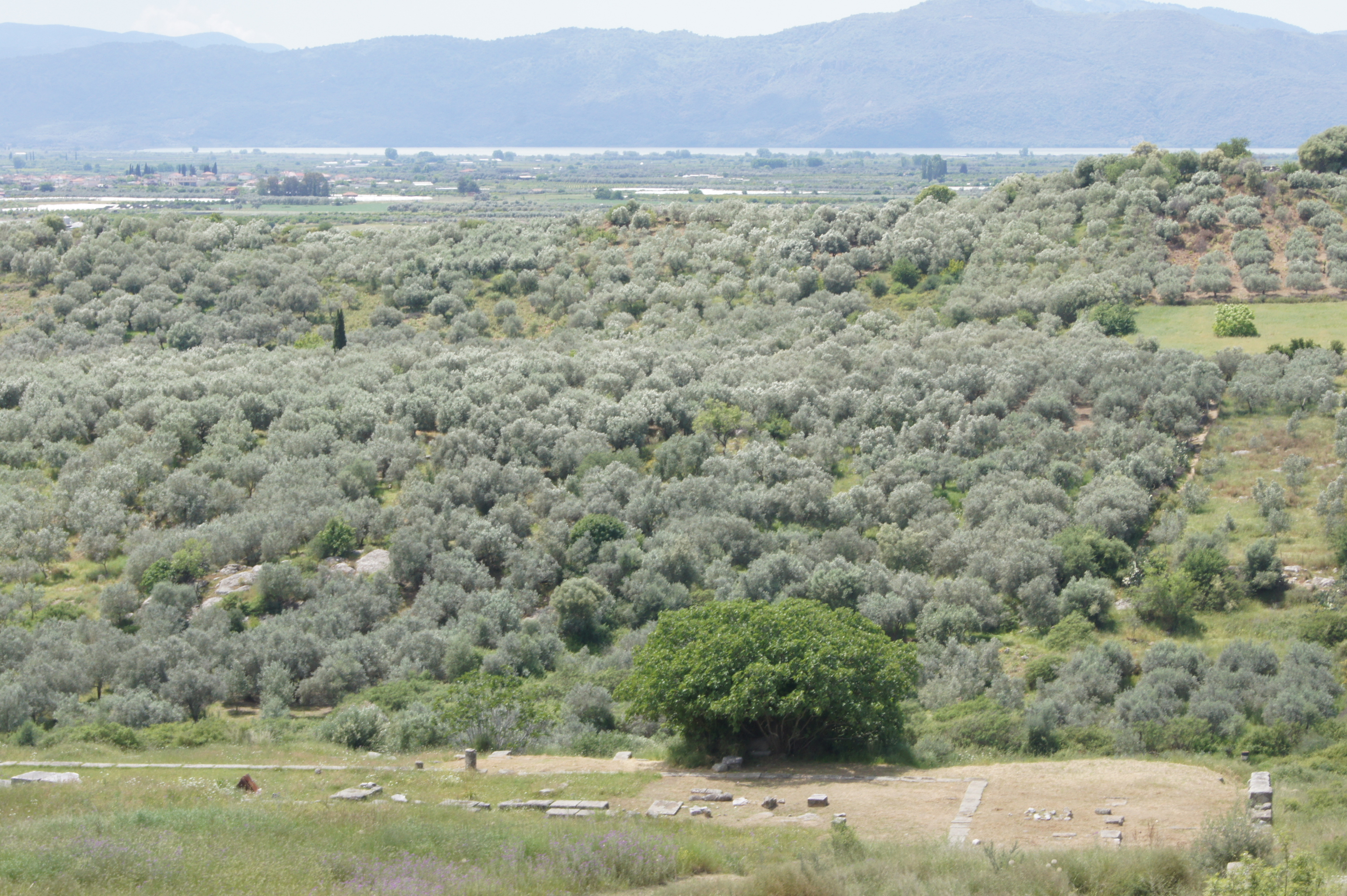 Stratos view over agora